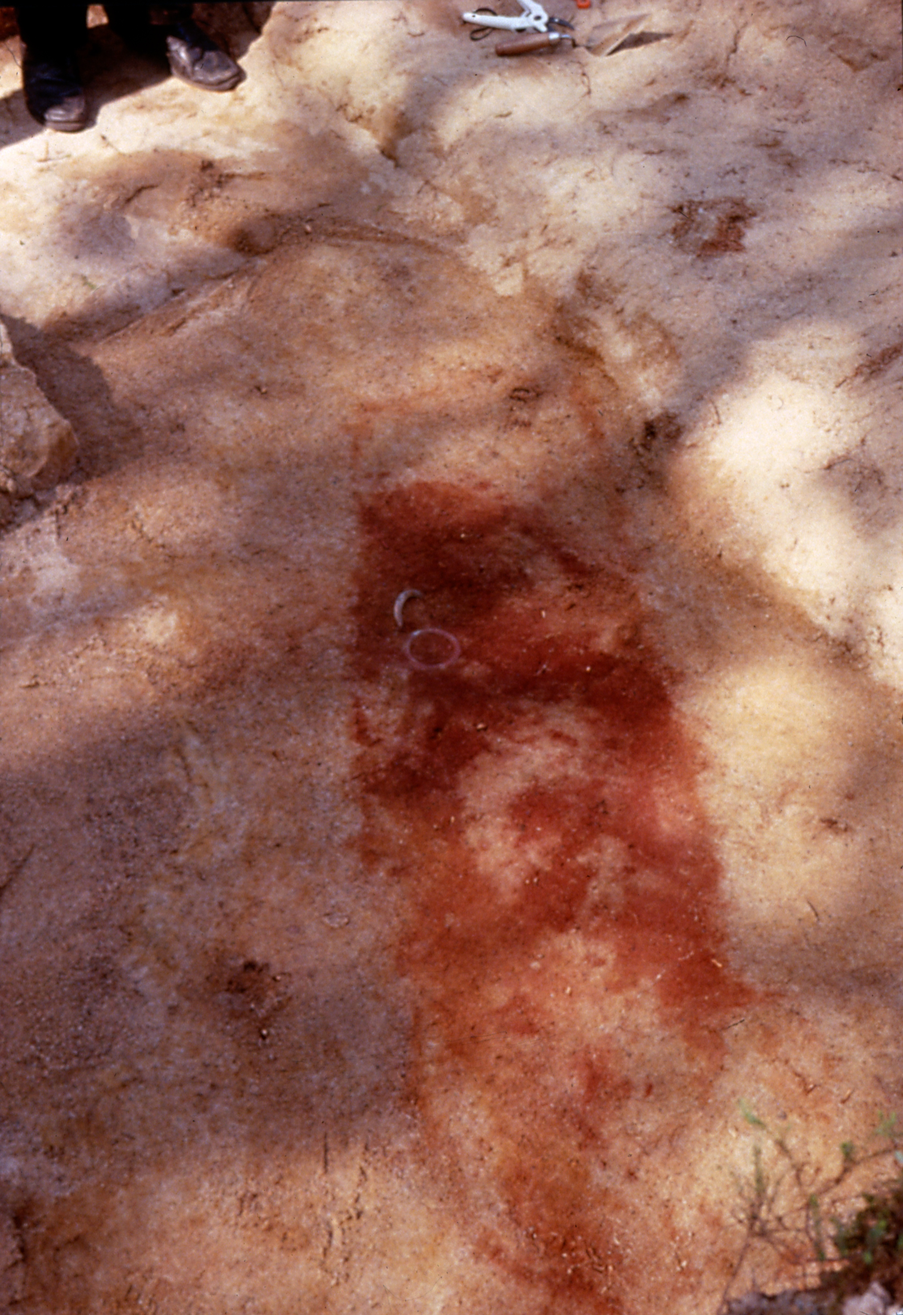 Stone age red mold grave from Laukaa, Finland.